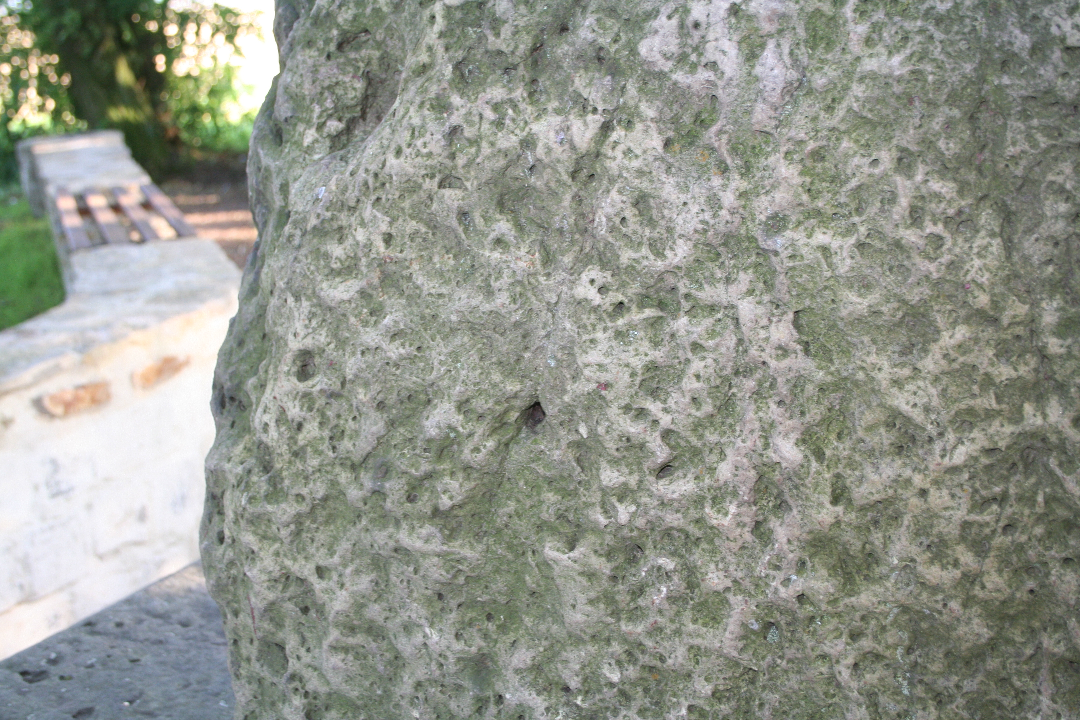 Menhir "Löchriger Stein" ("Holey Stone) or "Hoyerstein" ("Hoyer Stone") near Gerbstedt